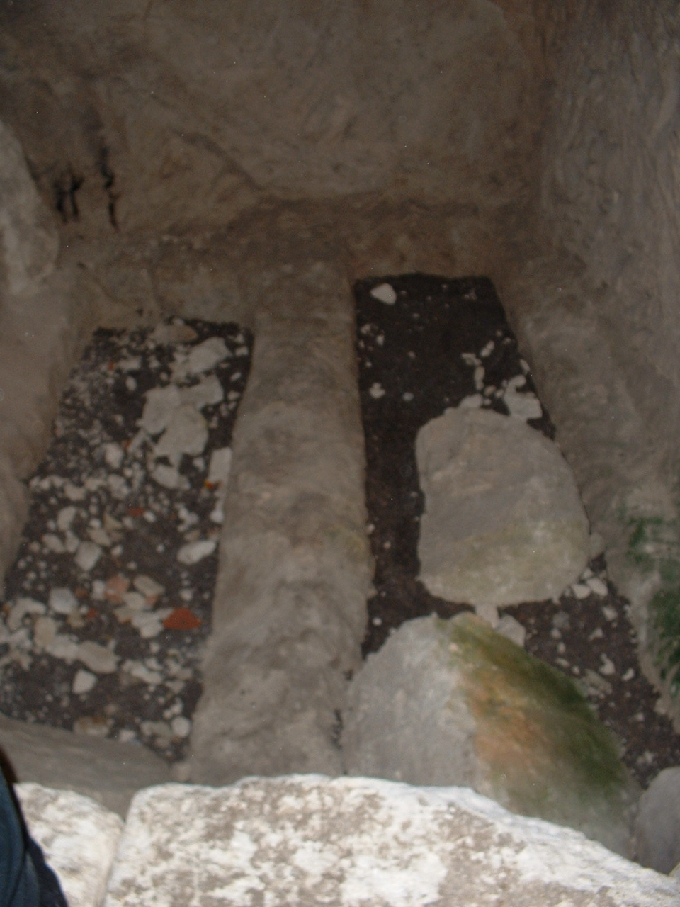 the grave of rabbi Yehda Hanasi